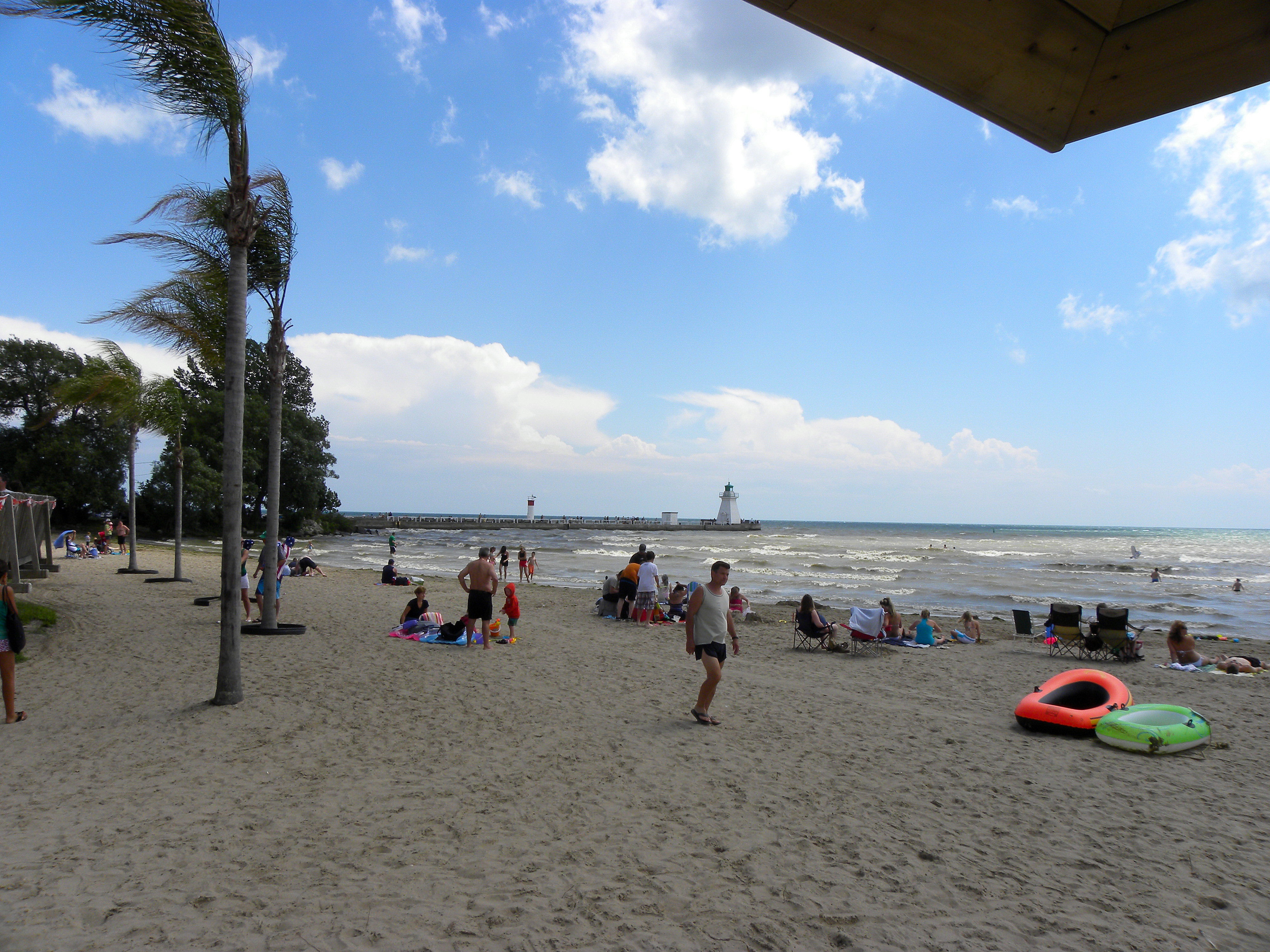 Erie Beach is right downtown Port Dover. Also, apparently, palm tress can grow in this part of Ontario.